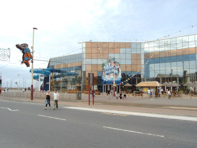 Sandcastle Water Park, Blackpool The UK's largest indoor water park.